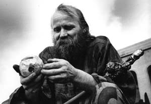 I don't know who has taken this photo which Robert Jäppinen has owned for many years. It shows Robert sitting on the stairs outside Gothenburg Art Museum, holding a wood ball that he, through the years, has used illustrating the earth.